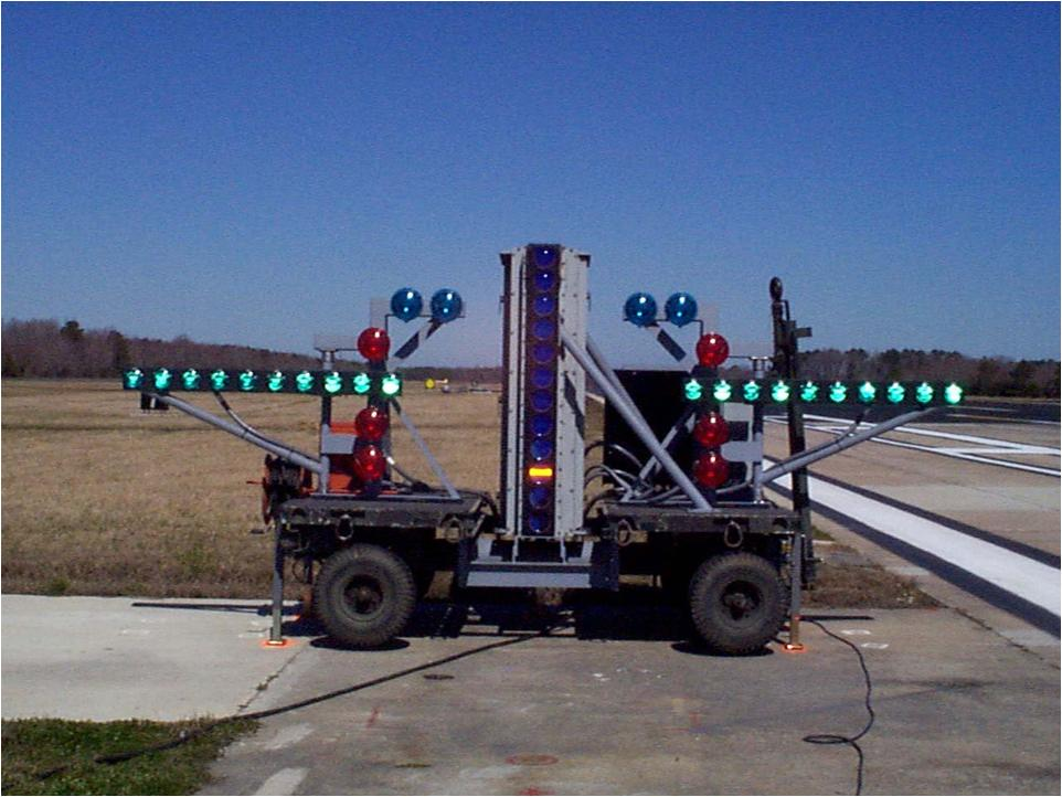 Land based Improved Fresnel Lens Optical Landing System (IFLOS).